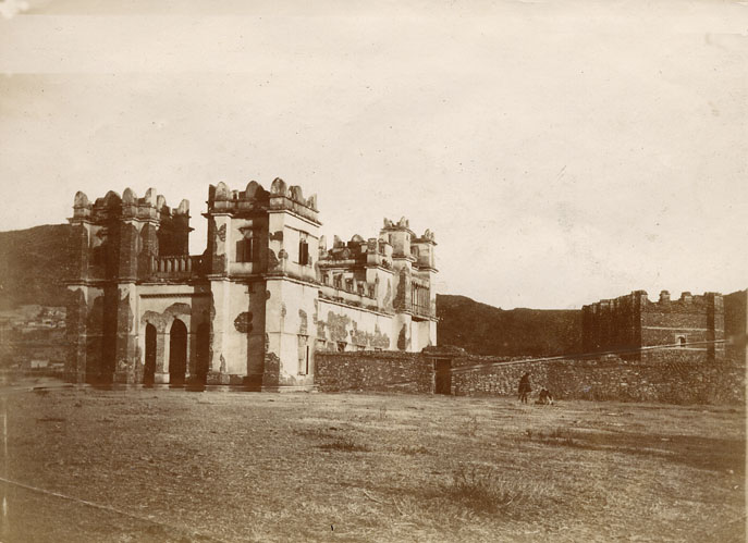 The fort of Mekele in 1896, Ethiopian Empire